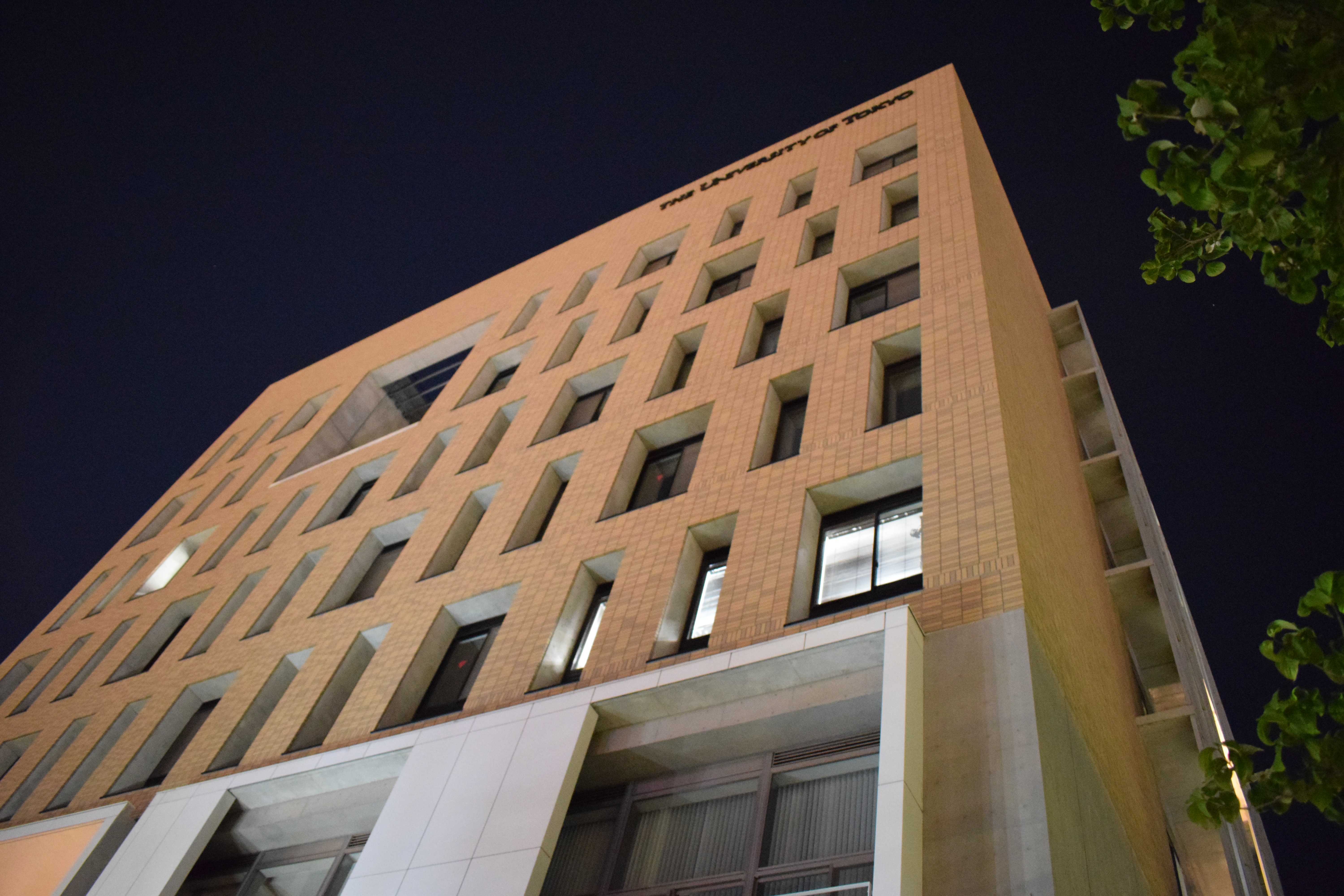 Building hosting the Database Center for Life Science